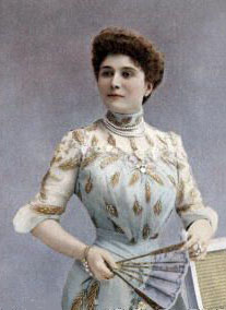 Portrait Marguerite Ugalde